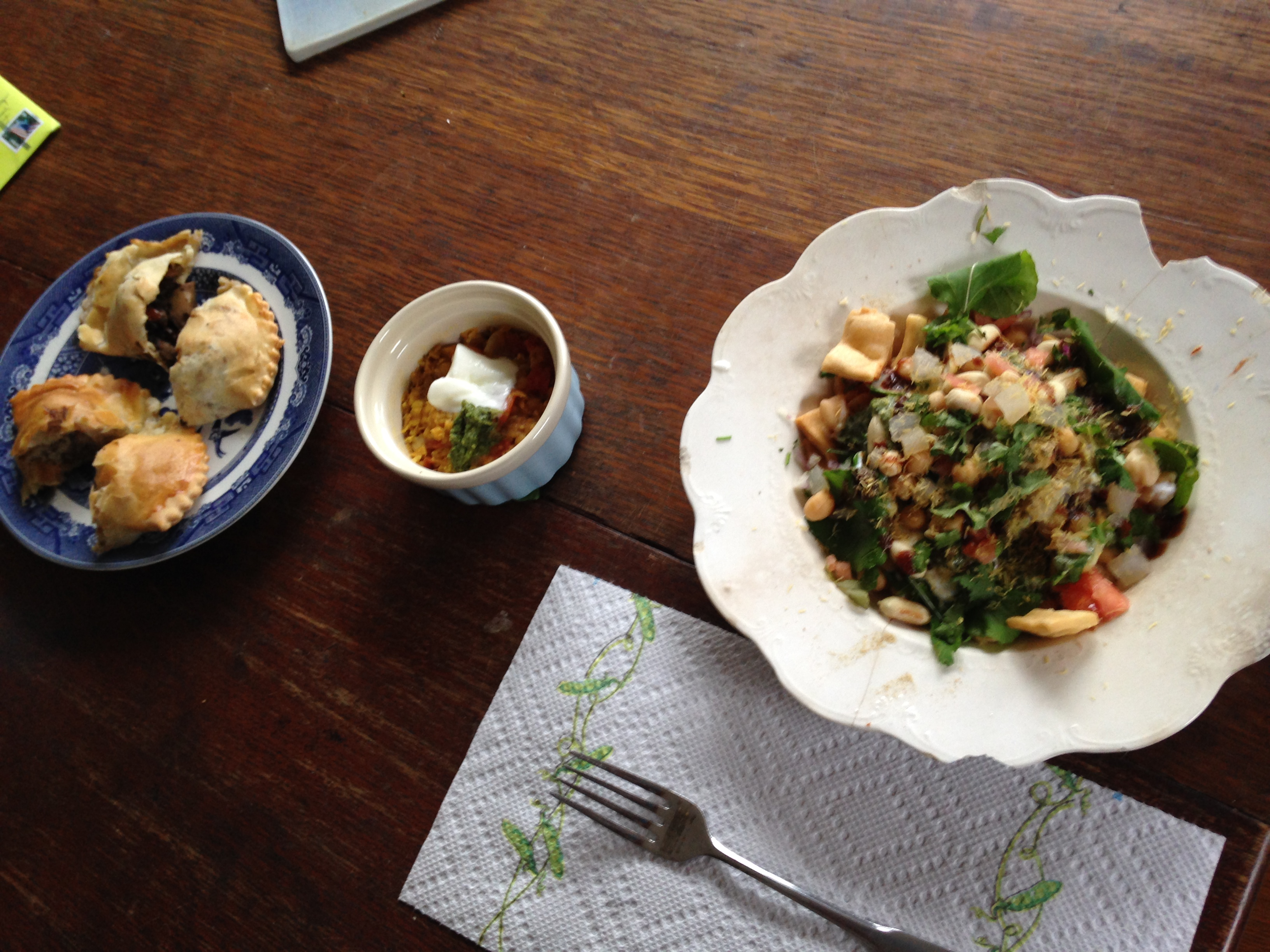 Papri chaat with daal and empanadas. Papri chaat is a salad-like concoction with chickpeas, potatoes, tomatoes, red onion and spicy crackers (papri) dressed with yogurt, green chutney and tamarind chutney and the whole thing seasoned with a generous anount of chaat masala, a commercial spice blend that makes dishes like this sing.